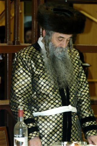 Duhuri Rebbe used with permission